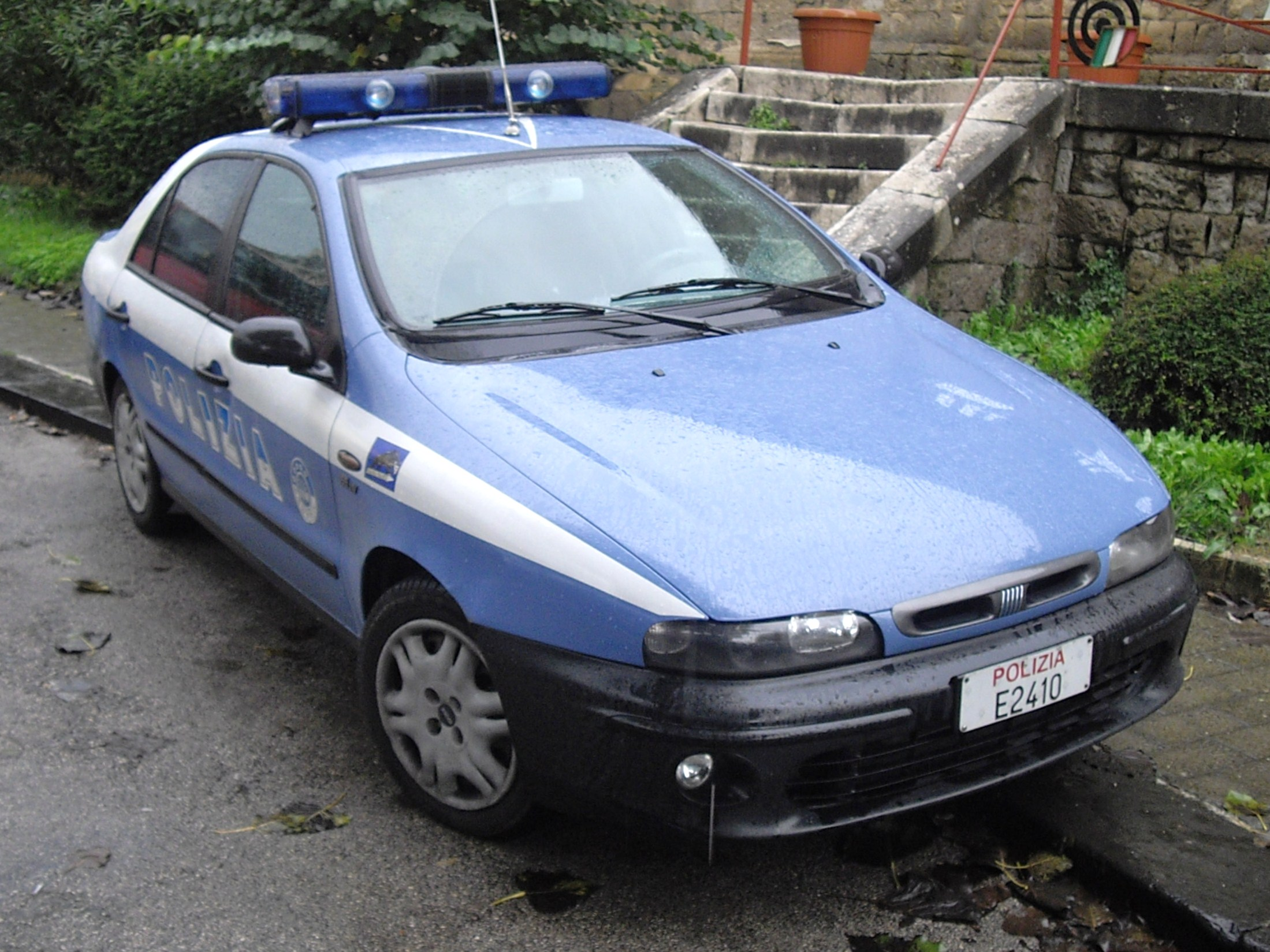 Fiat Marea Polizia di Stato